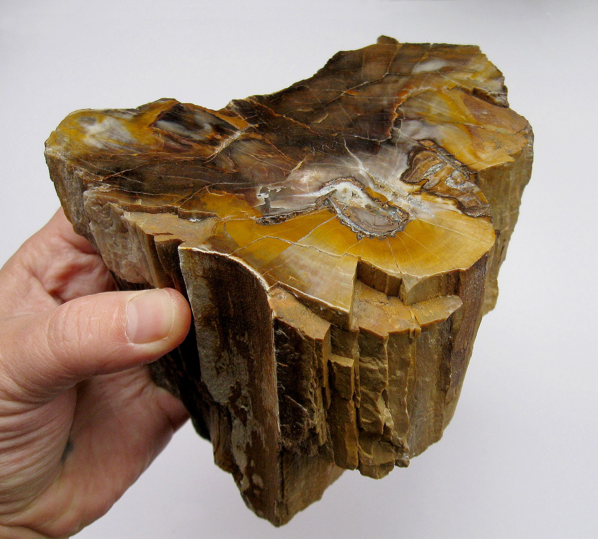 Petrified wood, Ukraine